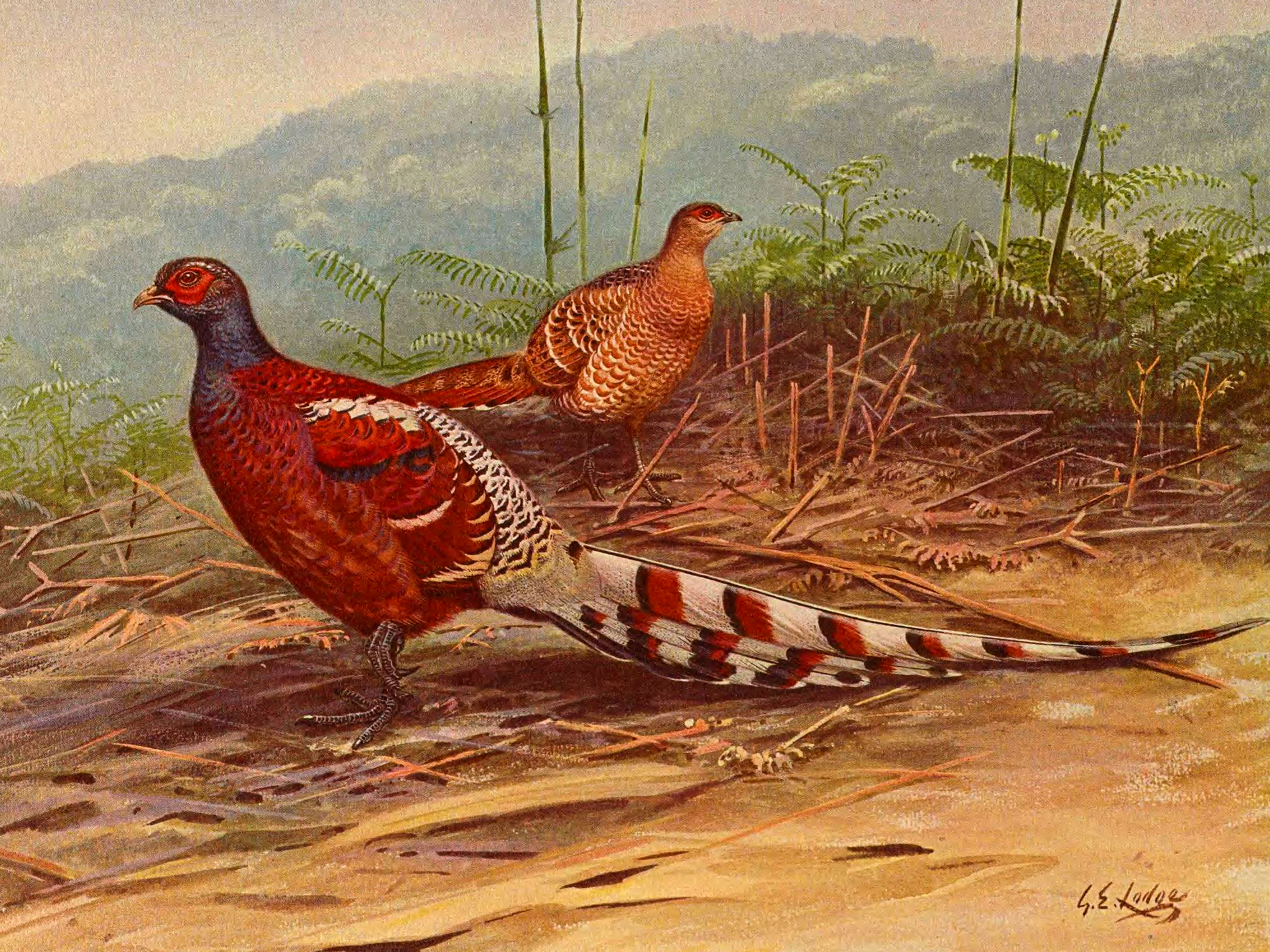 Burmese Barred-backed Pheasant (Syrmaticus humiae burmanicus)